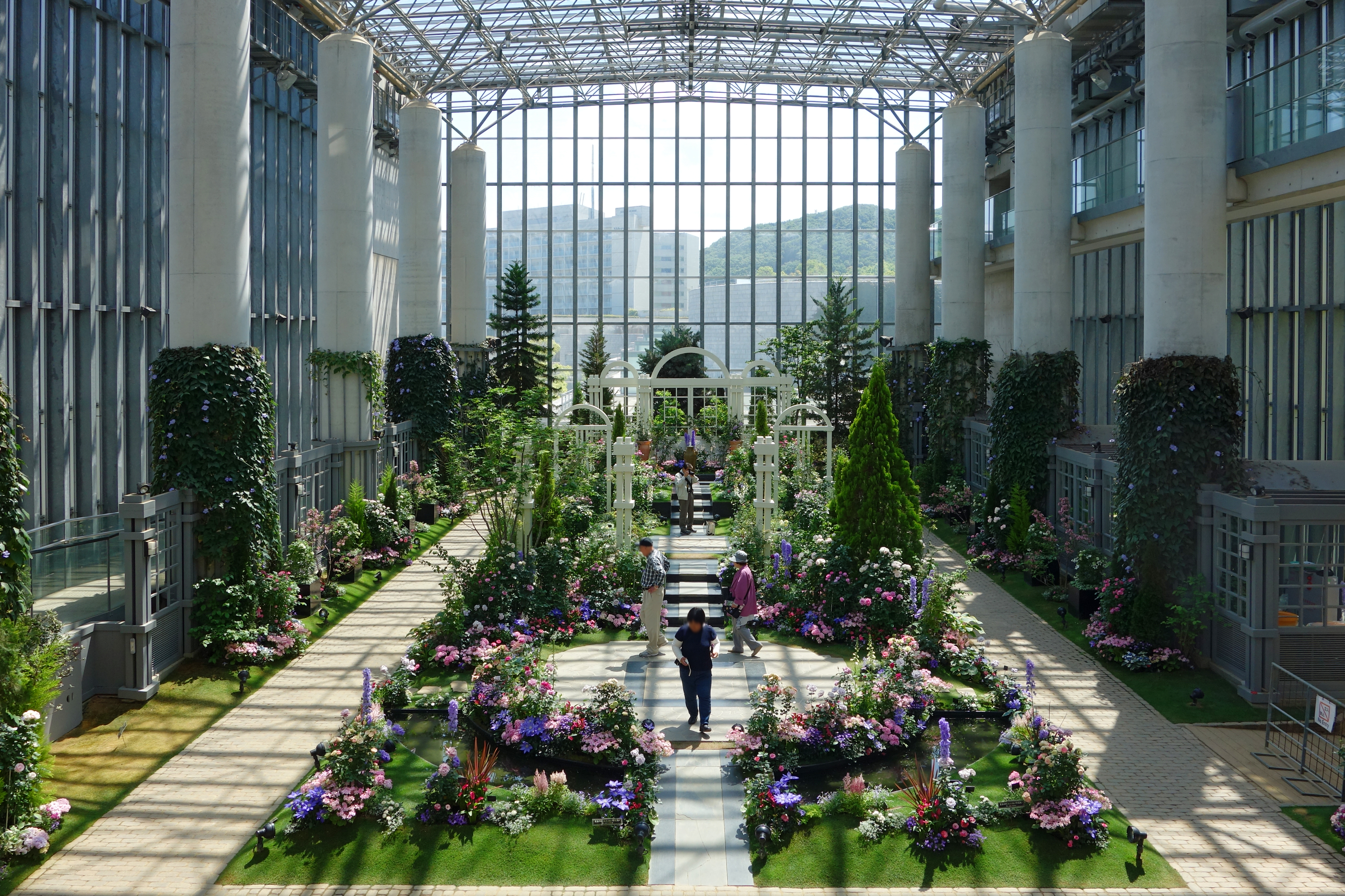 Kiseki No Hoshi Greenhouse (奇跡の星の植物館), Awaji, Hyogo prefecture, Japan